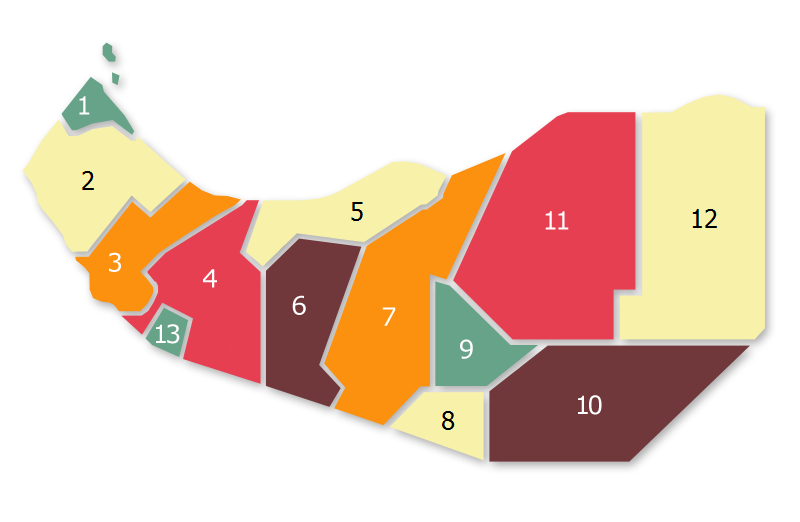 Regional Map of Somaliland, based on